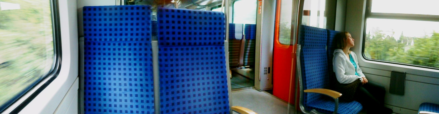 Interior view of the DBAG Class 425